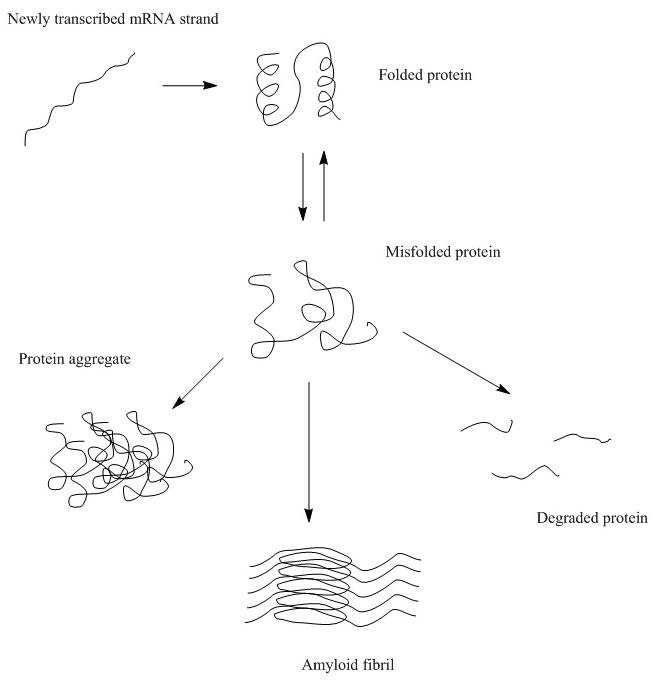 Chemical structure of ...